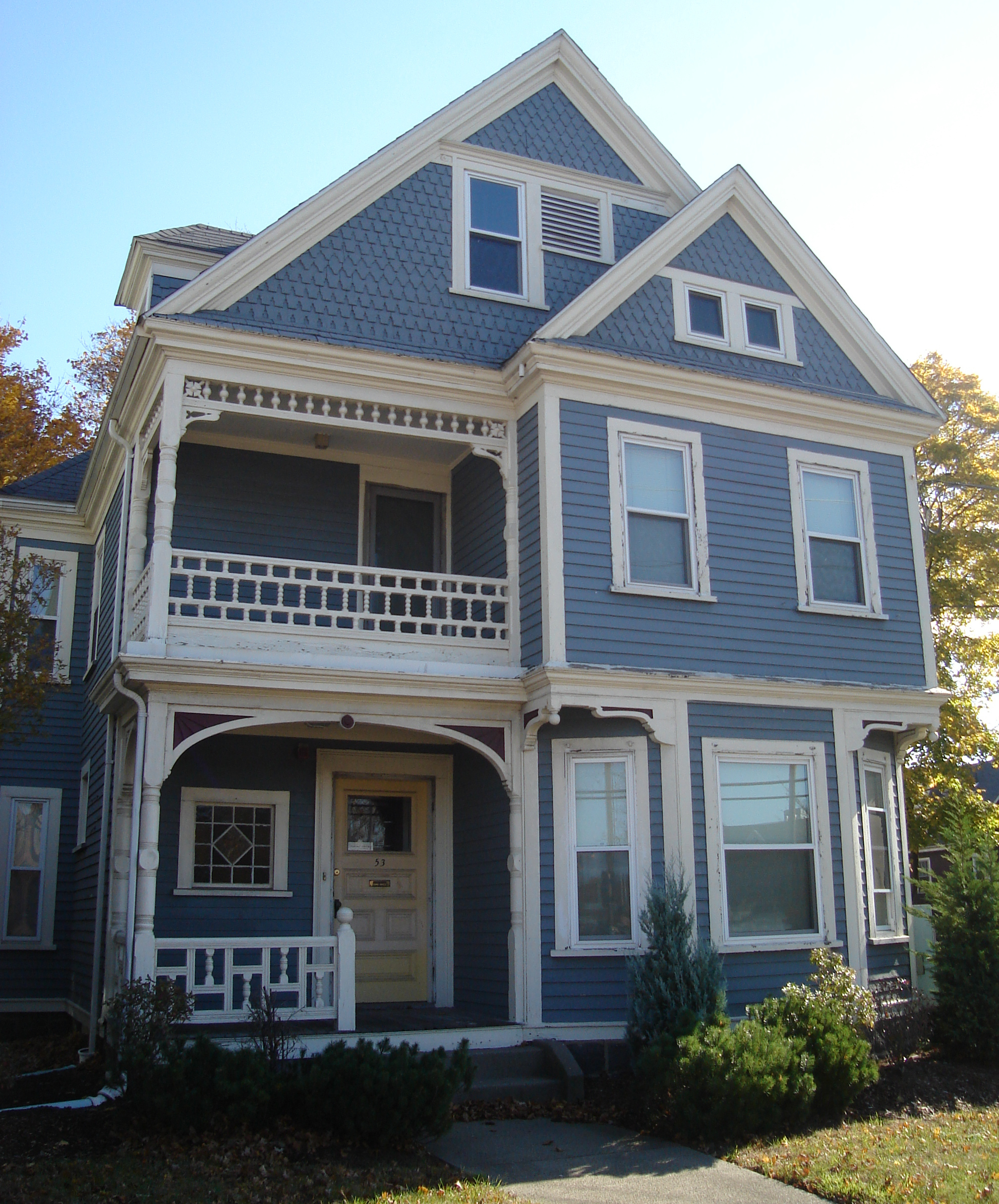 C. F. Pettengill House in Quincy, Massachusetts, built in 1890 and added to the National Register of Historic Places in 1989. External link